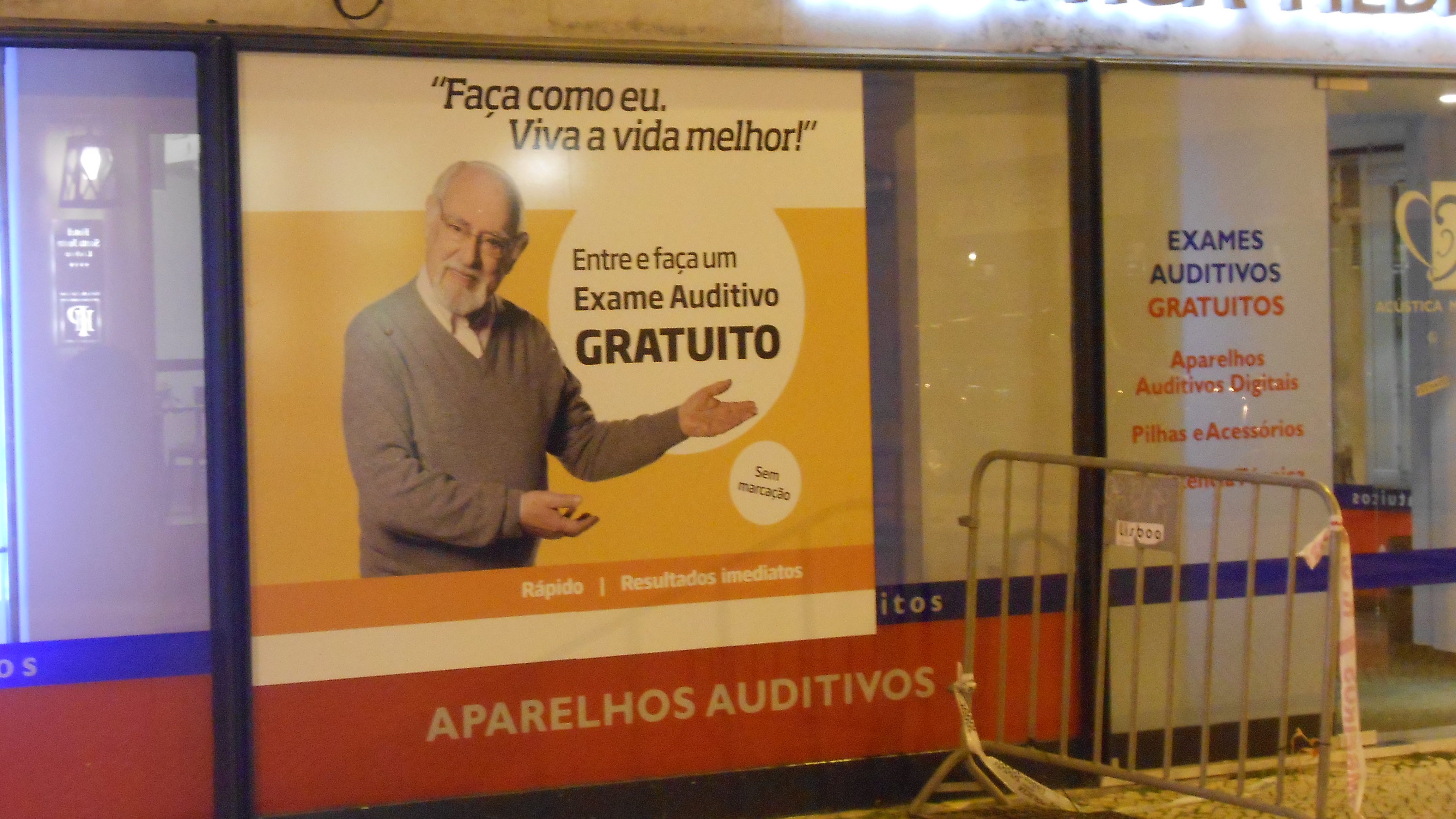 Advertisement with portuguese actor Ruy de Carvalho at a hearing aid shop near Elevador de Santa Justa in downtown Lisbon.